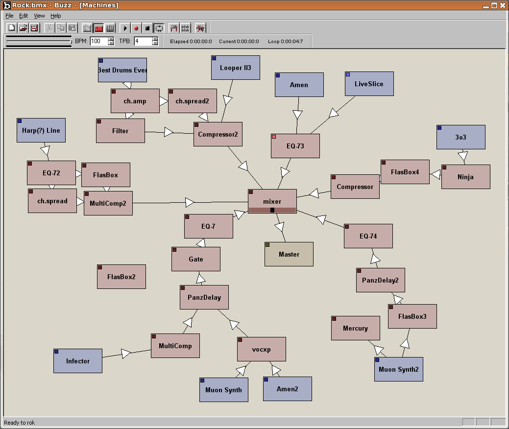 Author: Albert Santoni